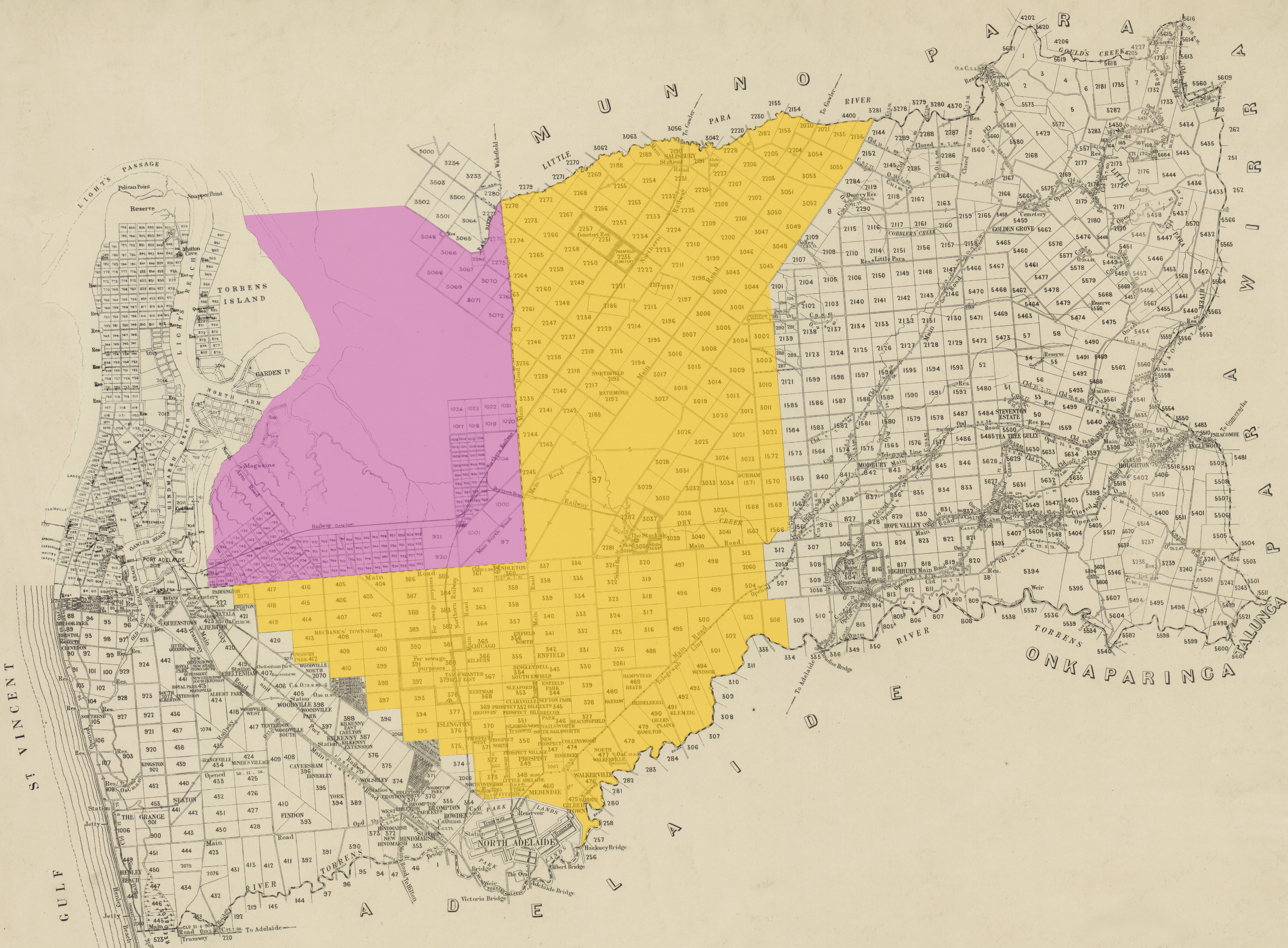 Map showing boundaries of Yatala Council at establishment in 1853, superimposed on maps of the Hundred of Yatala (1876) and Hundred of Port Adelaide (1884). The portion in the Hundred of Port Adelaide is shaded in purple and the portion in the Hundred of Yatala is shaded in yellow. Based on boundary description in SA Government Gazette, 16 June 1853 ( and two public domain images (Yatala - and Port Adelaide